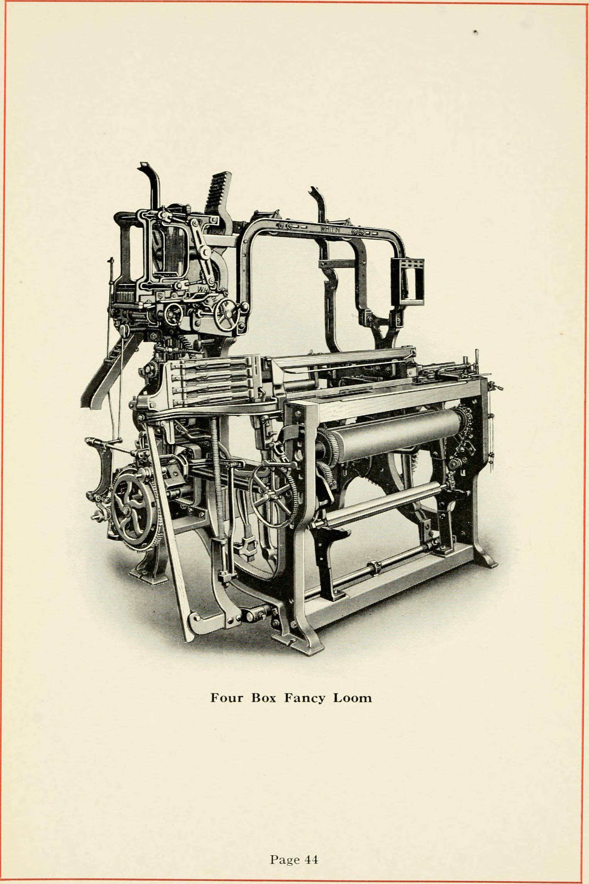 Title: Illustrated and descriptive catalog of Whitin cotton weaving machinery : and handbook of useful information for overseers and operatives Year: 1913 (1910s) Authors: Whitin Machine Works (Whitinsville, Mass.) Subjects: Cotton machinery Publisher: Whitinsville, MA : Whitin Machine Works Text Appearing Before Image: Two Box Loom Page 42 TWO BOX LOOM For weaving Handkerchiefs, Strips, etc. By reference to the illustration, it will be noted that the con-struction of this loom is of a very simple nature, of very few parts,easily adjusted, and not liable to get out of repair. The motion of the drop-boxes may be controlled either by apattern chain mechanism, such as illustrated on page 25, or bymeans of pattern pegs acting in conjunction with the dobby patternmechanism, as shown in the illustration on the preceding page. This loom may be fitted with any of our different styles ofcloth-roll and take-up motions, friction or Bartlett let-off motions,friction pulley, beam locks, spring jacks, and warp stop-motion. Pulleys: 12 and 14 diameter, 2 face. Page 43 Text Appearing After Image: FOUR BOX FANCY LOOM As will be seen by reference to the illustration on the precedingpage, this loom is of a rugged and substantial design. The sides,girts and arches are of such proportions as to readily withstandany strains that might arise in weaving fancy goods of all kinds.The Box Mechanism bracket is rigidly bolted to the loom side,thus ensuring positive and accurate alignment of the shuttle boxeswith the race plate. The Dobby is firmly seated on a heavy bracket bolted to thearch extension, and added solidity is given it by being stronglybraced to the arches. The loom may be fitted with any of our different types of cloth-roll and take-up motions, Bartlett or friction let-offs; patented warpbeam locks; friction pulley; box pattern chain multiplier; patternchain controller; leno mechanism; spring jacks; warp stop-motion. Pulleys: 12 or 14 diameter by 2 face. Page 45